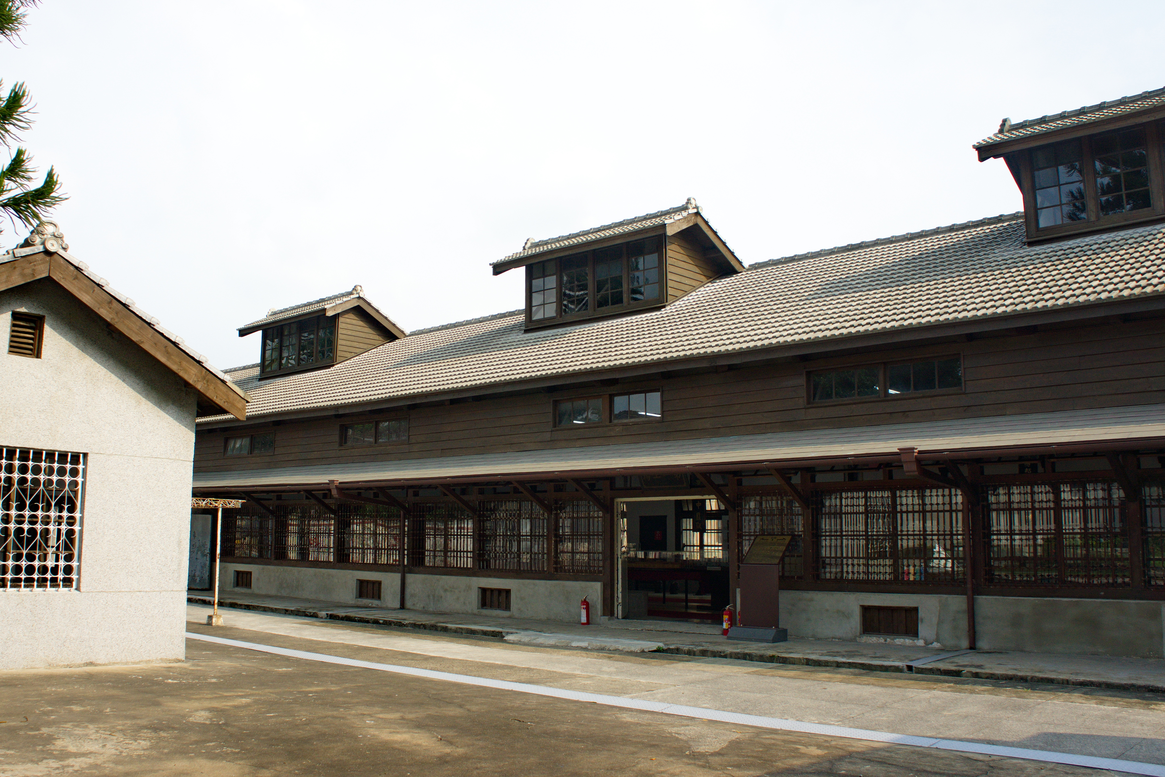 Covered ridge with sidewall openings on the roof of the Workshop One, Old Chiayi Prison, Taiwan.